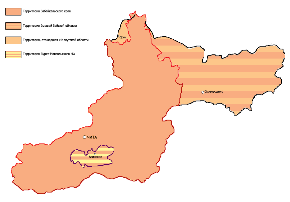 Map of Chitinskaja oblast, 1941